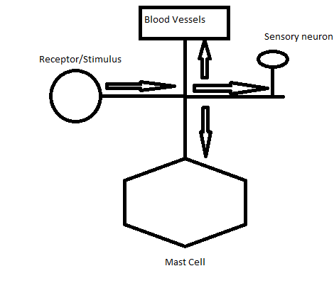 A stimulation occurs at a point along the axon after it bifurcated; the electric signal flows backwards towards the branching point (whereas it would normally flow only towards the terminal if coming from the soma.) The electric signal then flows to all effector organs that the neuron innervates, as well as stimulating the soma of the parent neuron.